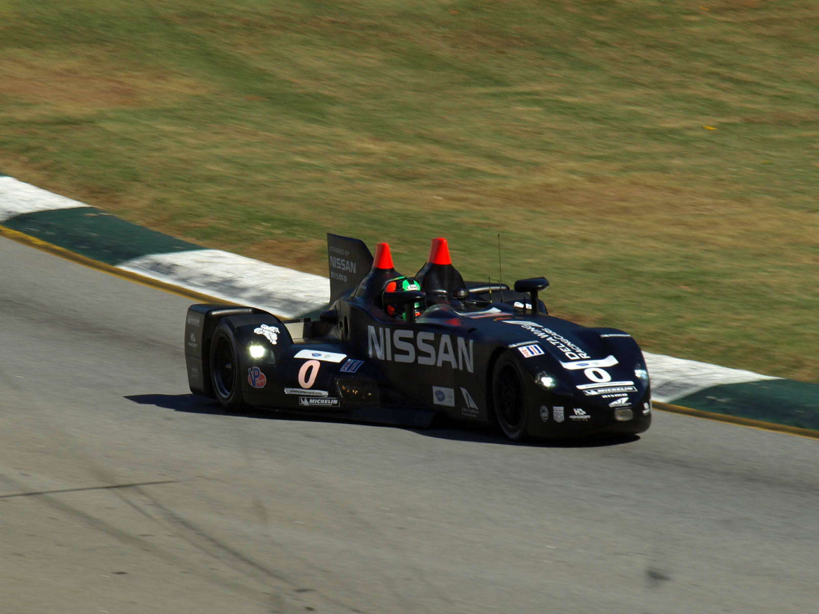 Gunnar Jeannette in the Highcroft Racing DeltaWing during qualifying for the 2012 Petit Le Mans